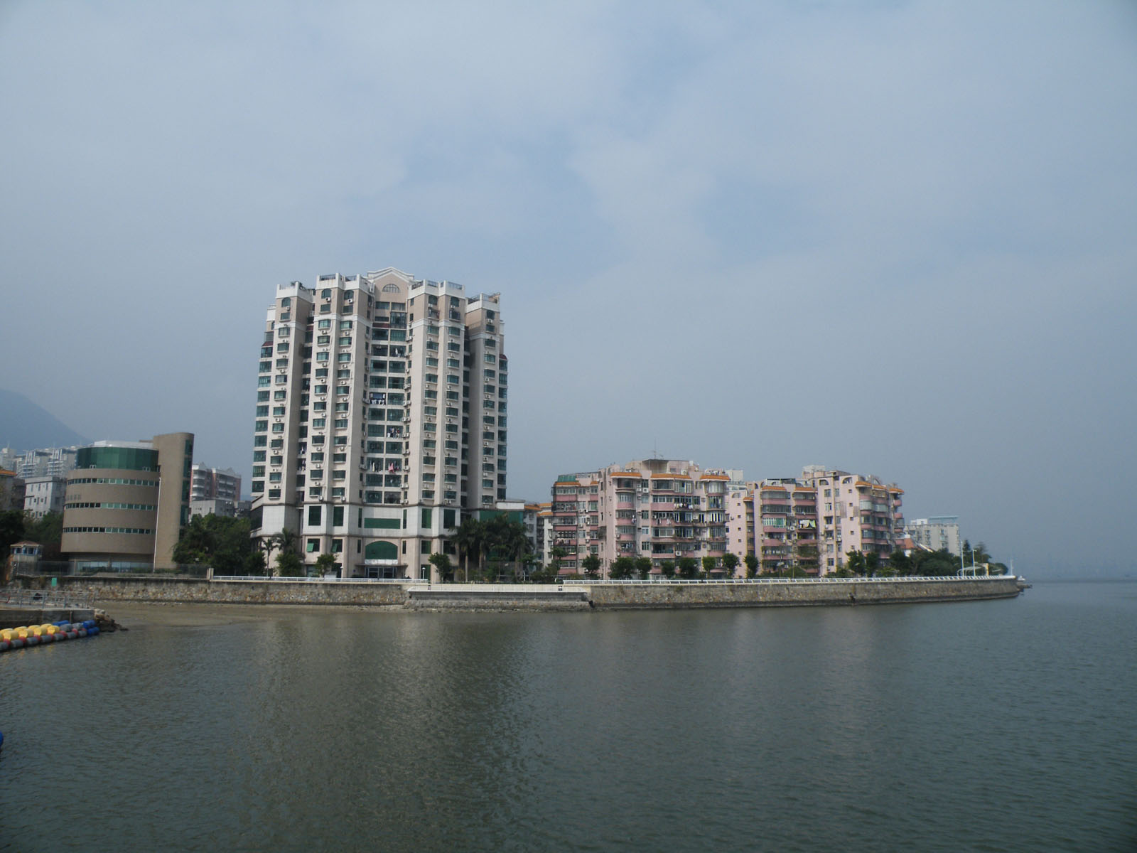 Sha Tau Kok - China Side view from HK